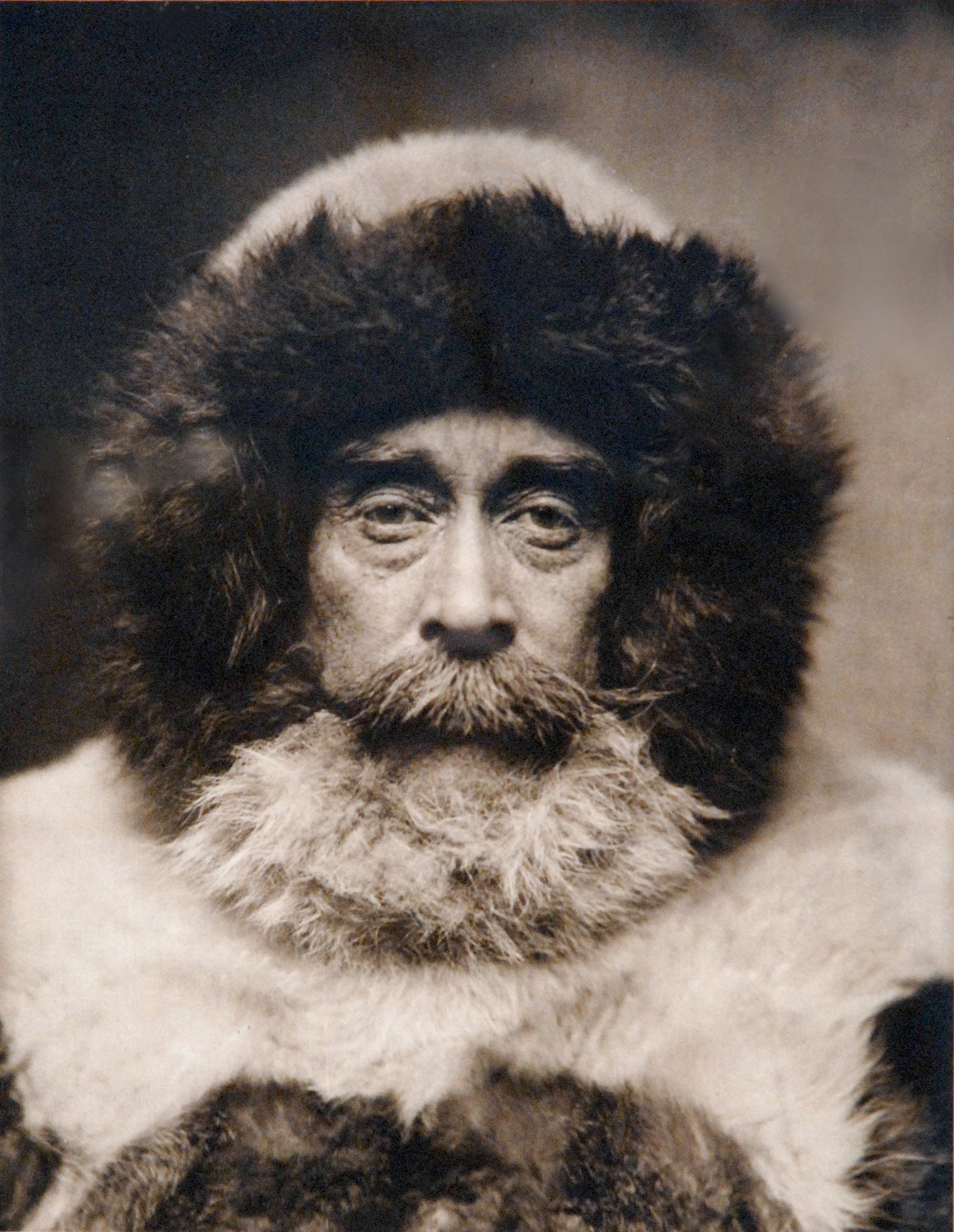 Photogravure portrait of Robert Peary in furs